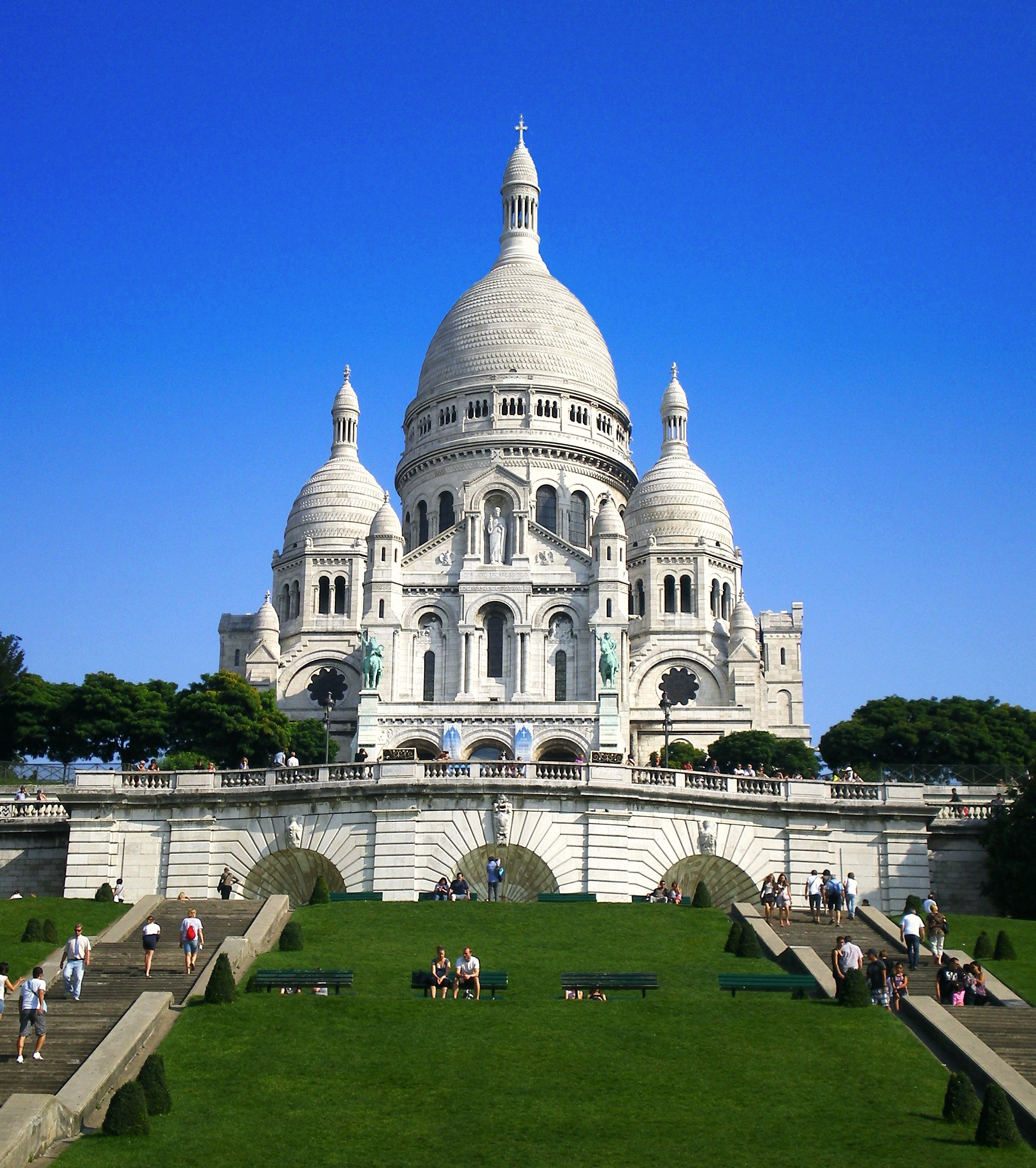 South facade of the Basilique du Sacré-Cœur de Montmartre